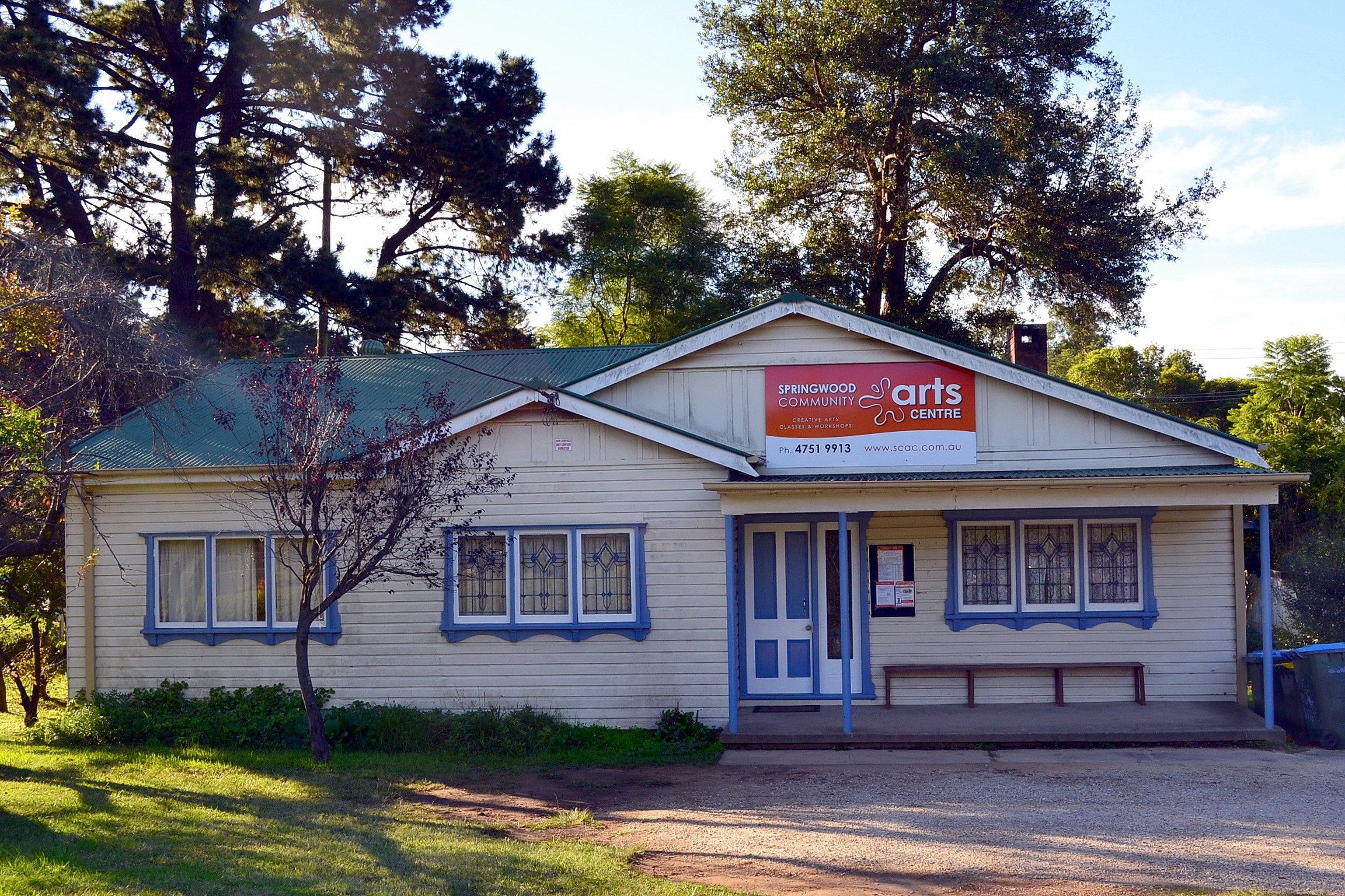 Community Arts Centre, Springwood, Blue Mts, NSW, Australia (image has been altered to eliminate tilt, 2015-1-29, by User:Sardaka)